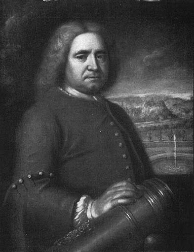 Johannes Maritz (1680-1743)